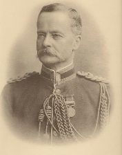 Photograph of Samuel Lomax (1855–1915)